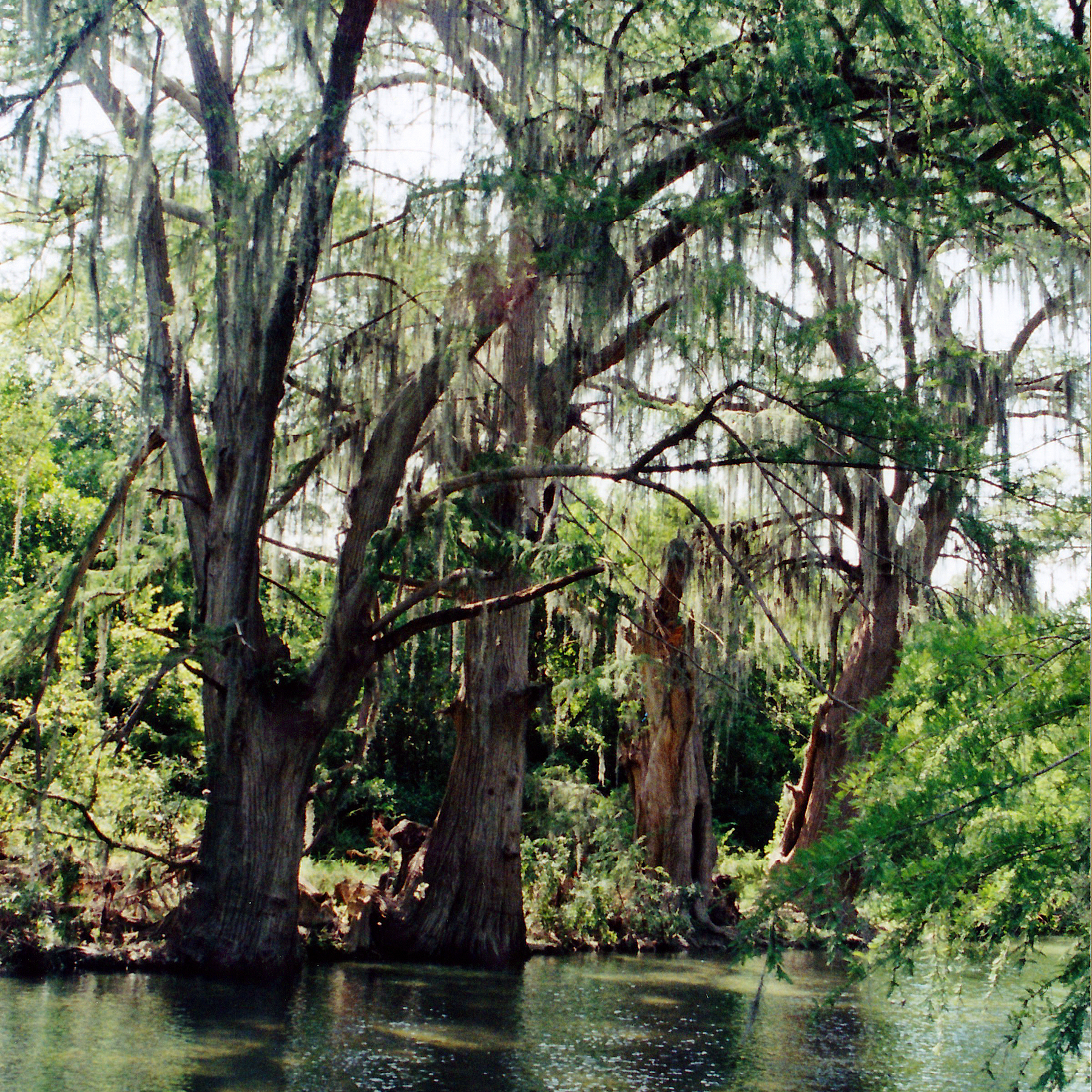 Montezuma Bald Cypress (Taxodium mucronatum) Rio Pilón 2 km E of Villagrán Municipality of Villagrán, Tamaulipas, Mexico (24.4601°N, 99.4668°W, 364 m. elev.). Photographed on 9 August 2005 by William L. Farr.